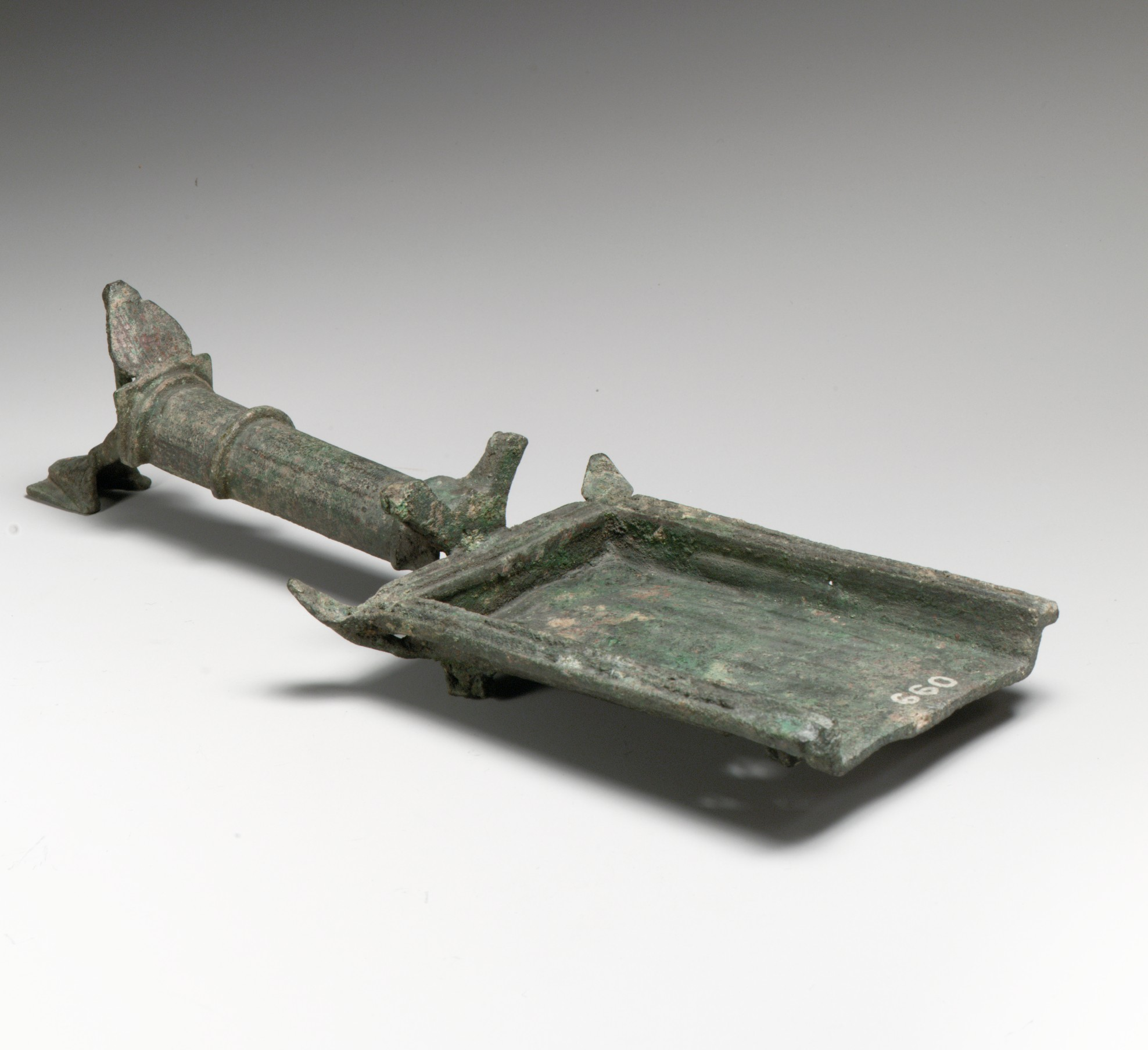 Roman; Shovel; Bronzes